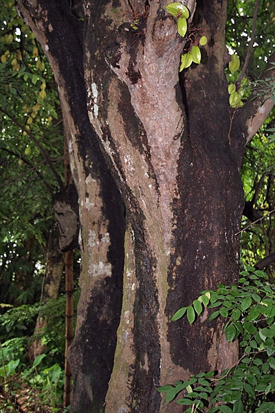 Kamrakh Averrhoa carambola in Kolkata, West Bengal, India.